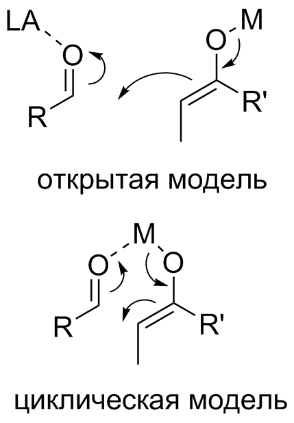 aldol reaction models